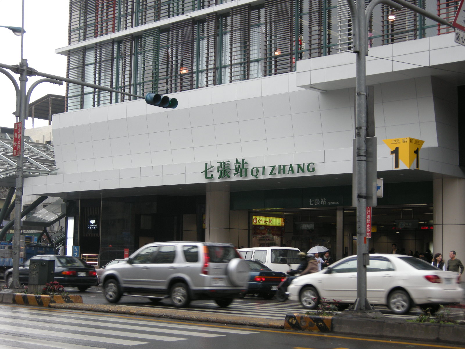 Qizhang station on February 2, 2008.